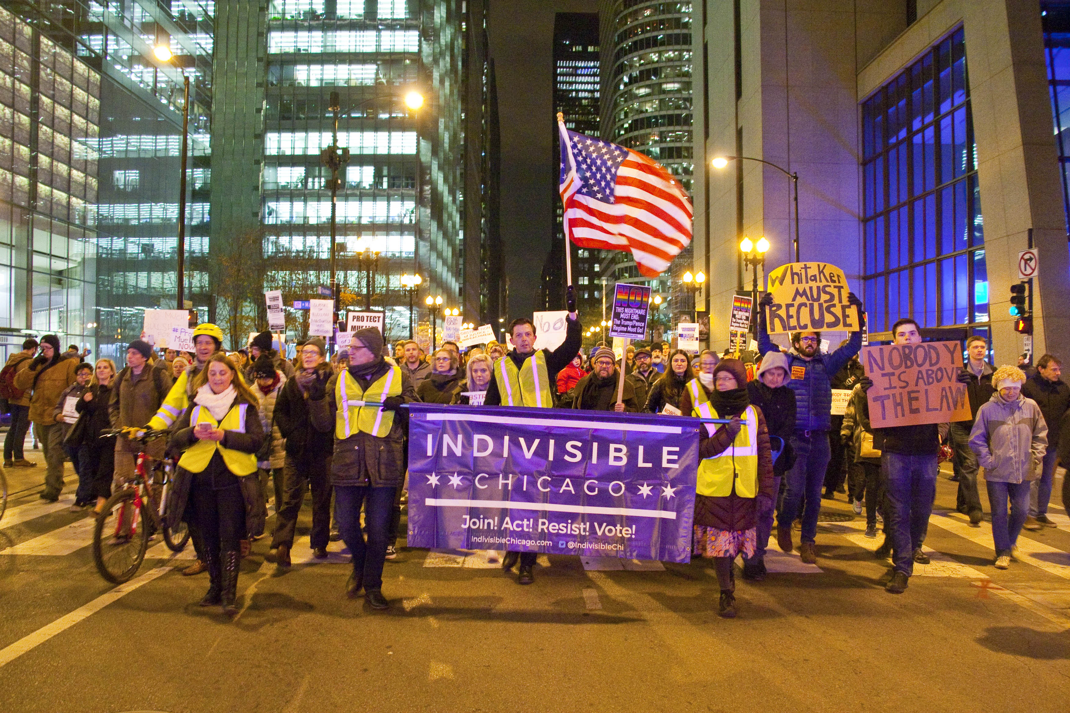 Once again the angry villagers descended upon Trump Tower in downtown Chicago. Instead of blazing torches, they carried signs filled with anger at what they perceive to be the general anti-democratic and authoritarian nature of the Trump presidency. They demand that the Mueller investigation into the doings of Trump and the Trump organization be protected from interference by the president. You can tell the feelings of the populace not only by how they vote but also, and perhaps more importantly, by the messages conveyed on the signs they carry.